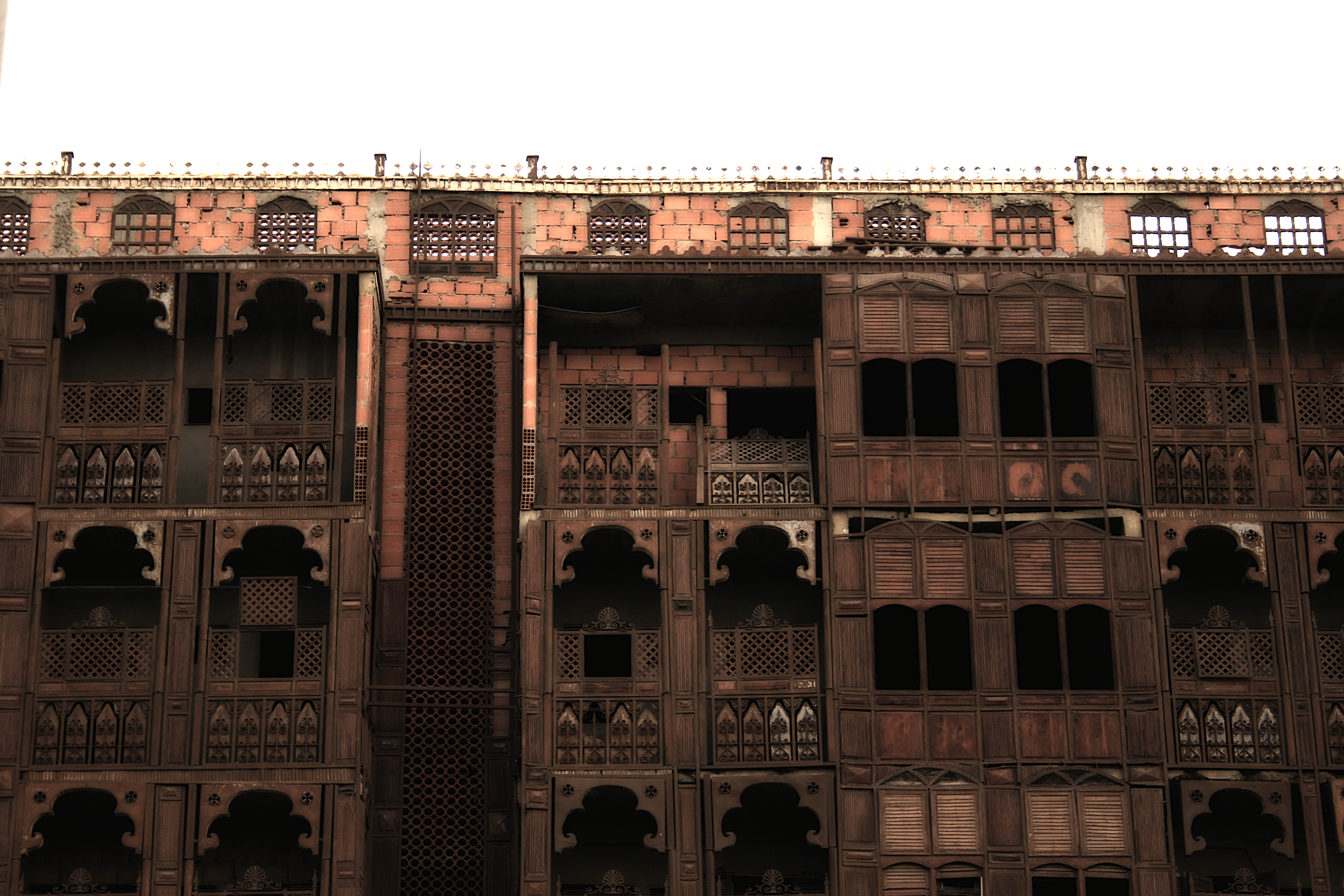 Building in Old Jeddah